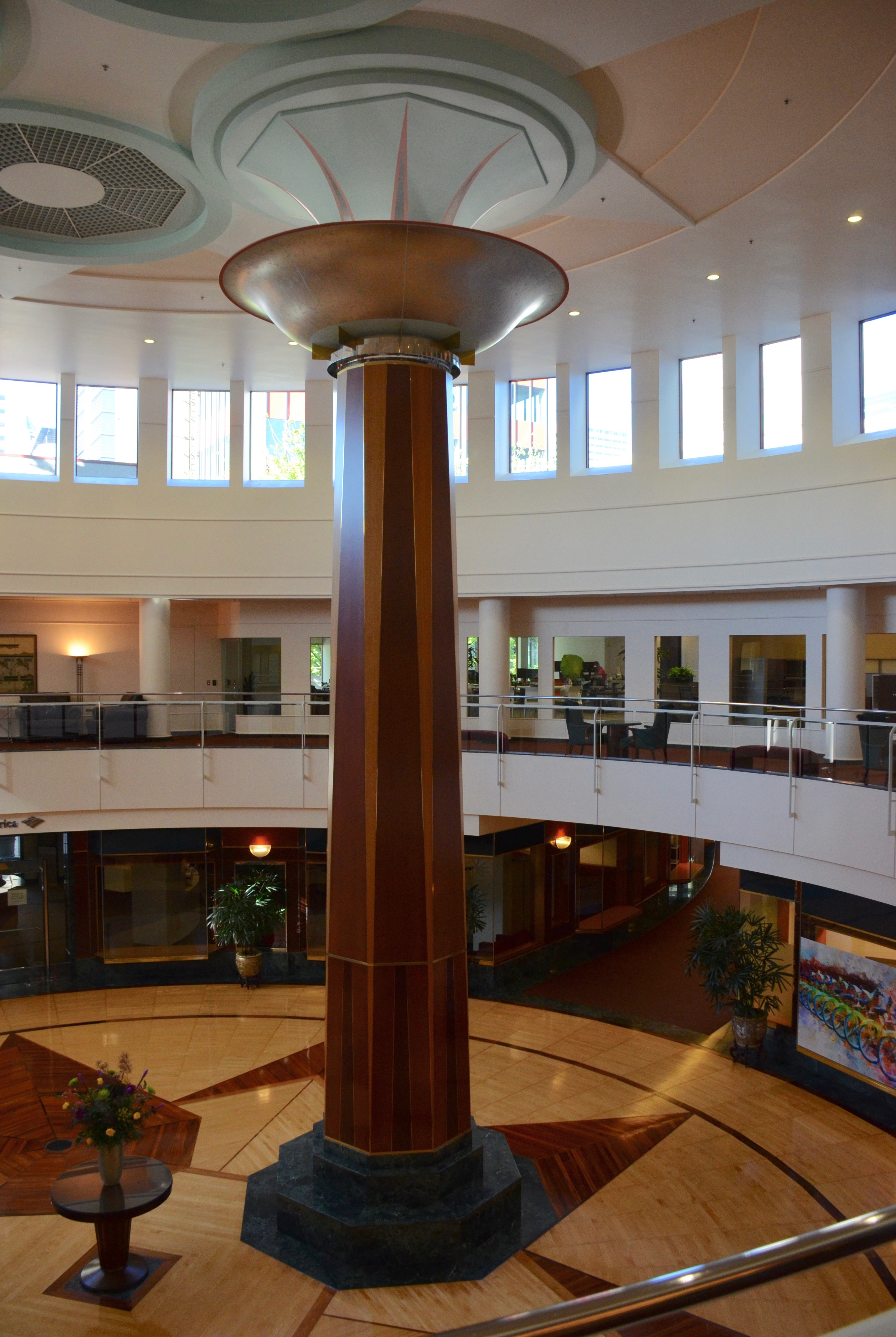 The lobby of the Bank of America Center (or Bank of America Financial Center) in Portland, Oregon.